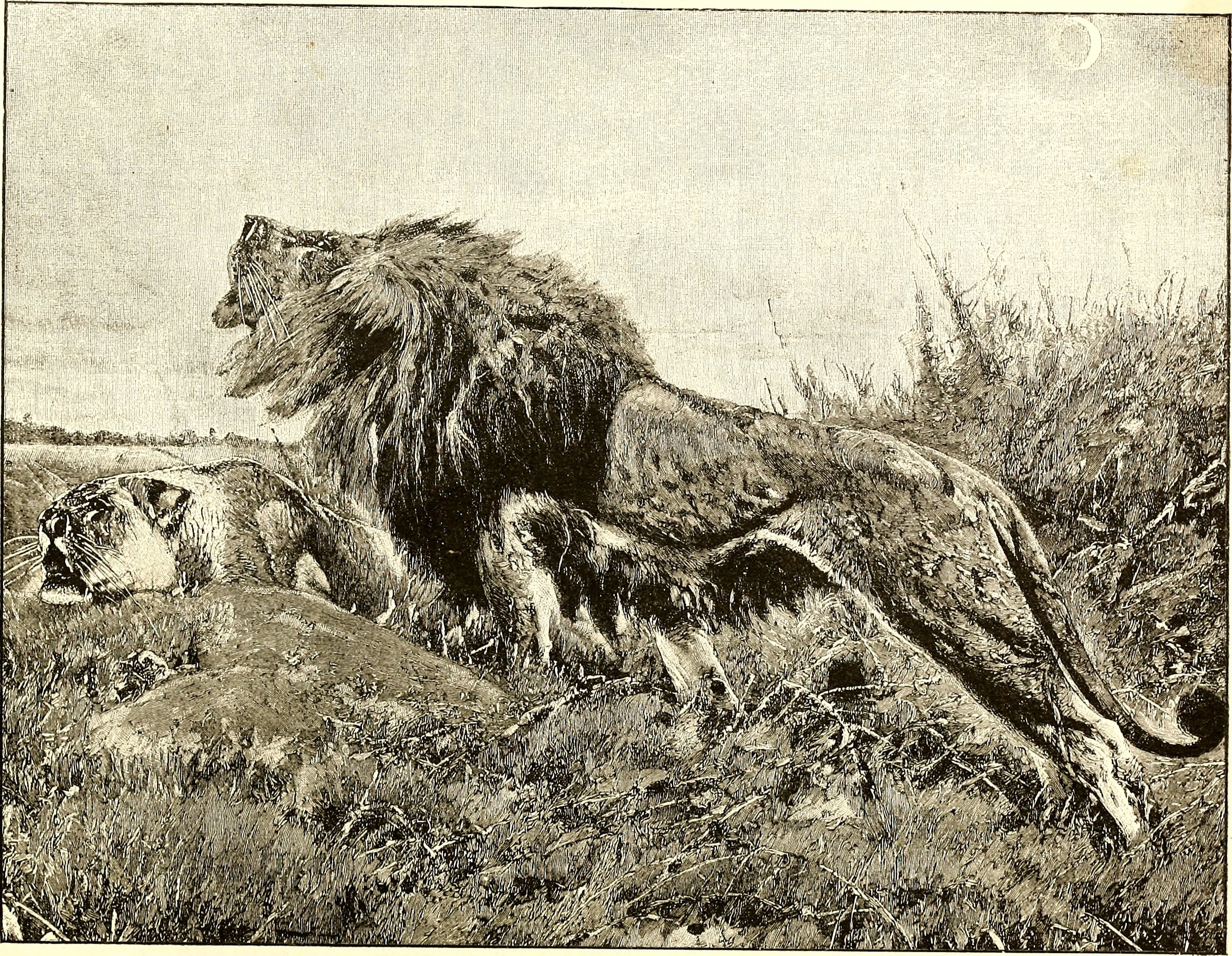 Title: All about animals. Facts, stories and anecdotes Year: 1900 (1900s) Authors: Subjects: Animals Publisher: New York, McLoughlin bros Text Appearing Before Image: BARBARY LION. Text Appearing After Image: O g 3 O THE TIGER. The Tiger hunt is the royal sport of India, because it is attended withgreater danger than any other kind of hunting in the world. Books could befilled with stories of the tigers ferocity and recklessness, its wild charges uponelephants and horses of the hunting-party and its violent struggles to get away,once it has been cornered by its foes. There is an old saying which runs : You are never sure of a tiger until he is dead, and not always then. Thestriped skin of the tiger is of great use to him as a protection, just as much asthe brown fur of the lion helps it to hide among the sand-hills and rocks.The tiger haunts the thickest jungle, and its brilliant yellow and black stripedskin harmonizes splendidly with the reeds and grasses in the fierce lights andshadows of the Indian day. Much is written of the man-eating tiger by people who do not realize thatit is only the lame or aged beast, unable any longer to pull down a buck,that attacks man. When the tiger has onc